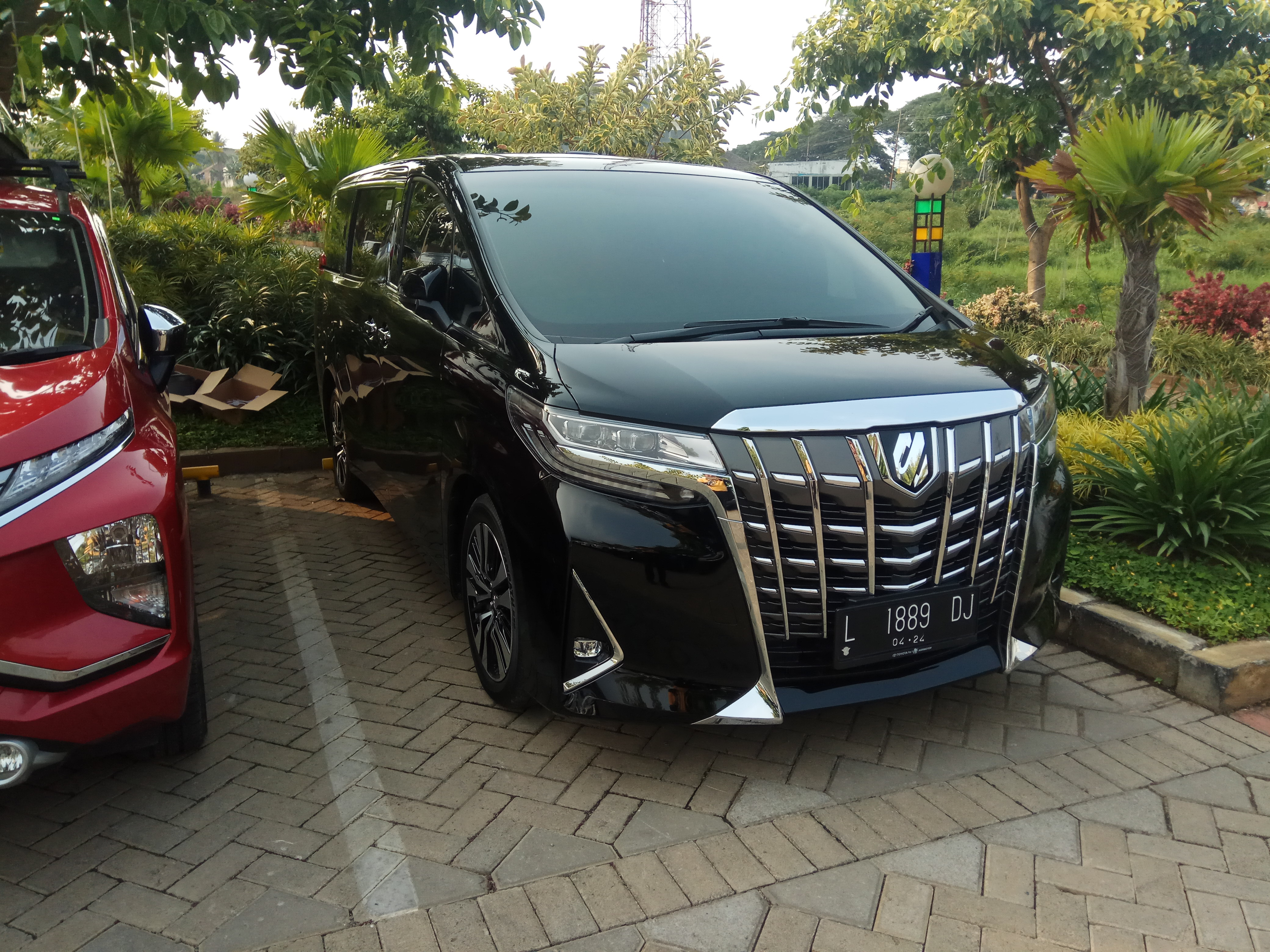 2019 Toyota Alphard (AH30 facelift) 2.5 G photographed at Jawa Timur Park 3 parking lot in Batu City, Malang District, East Java, Indonesia.